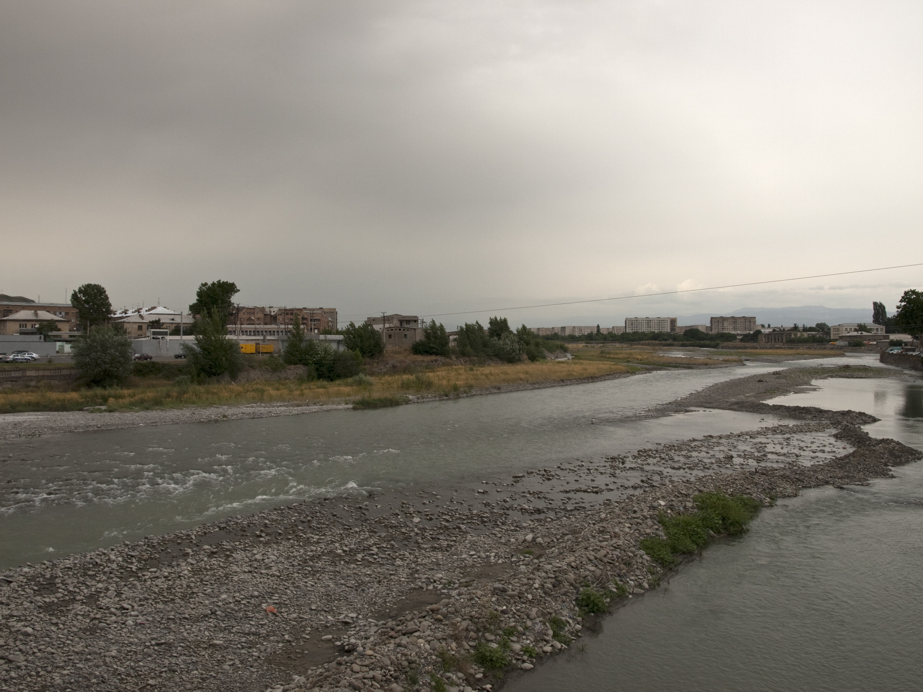 Great Liakhvi in Gori, view from the bridge